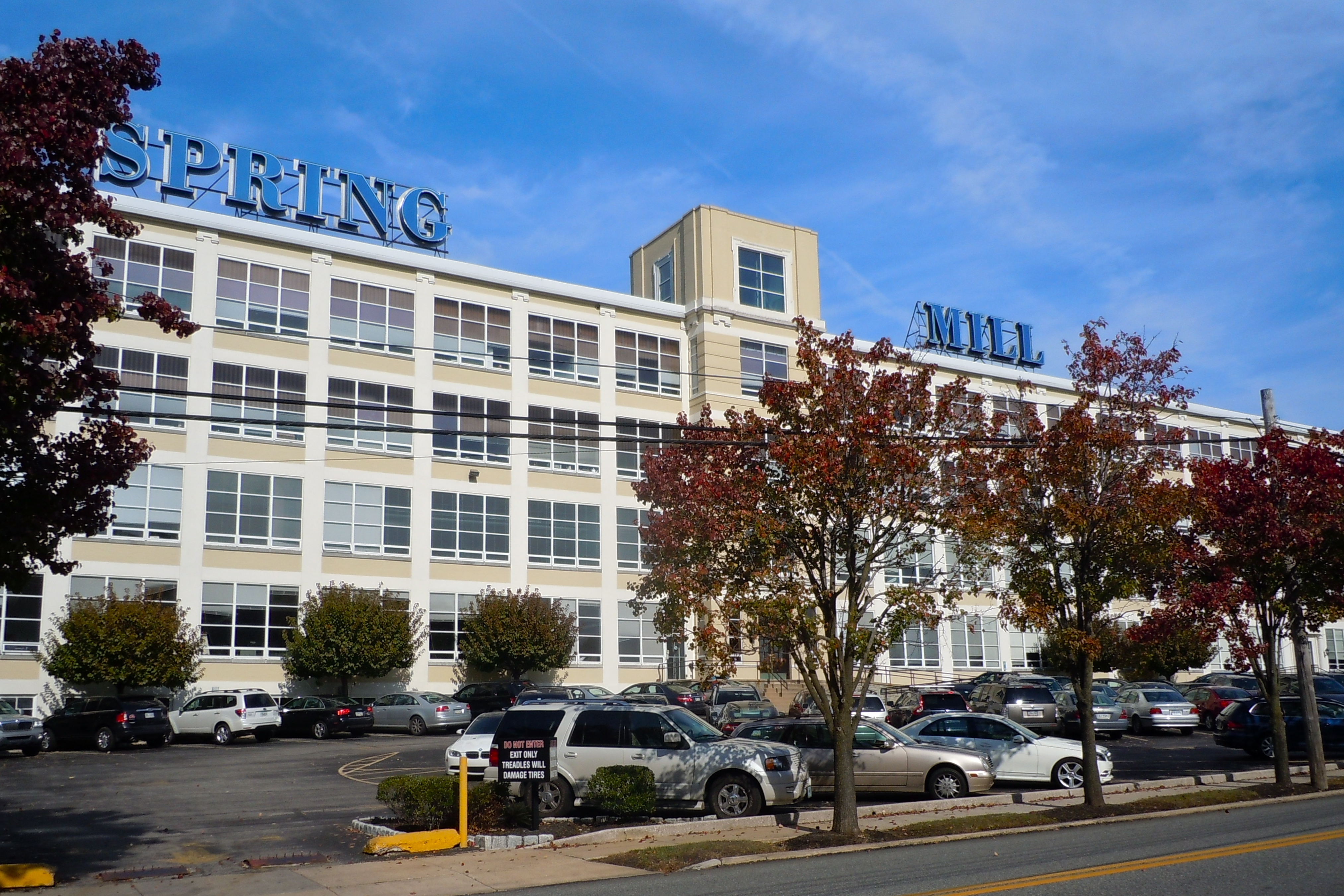 Lee Tire and Rubber Company on the NRHP since August 23, 1984. At 1100 Hector Street (NW corner with North Lane), Conshohocken, Montgomery County, Pennsylvania. Note that three NRHP sites are located near the same corner.